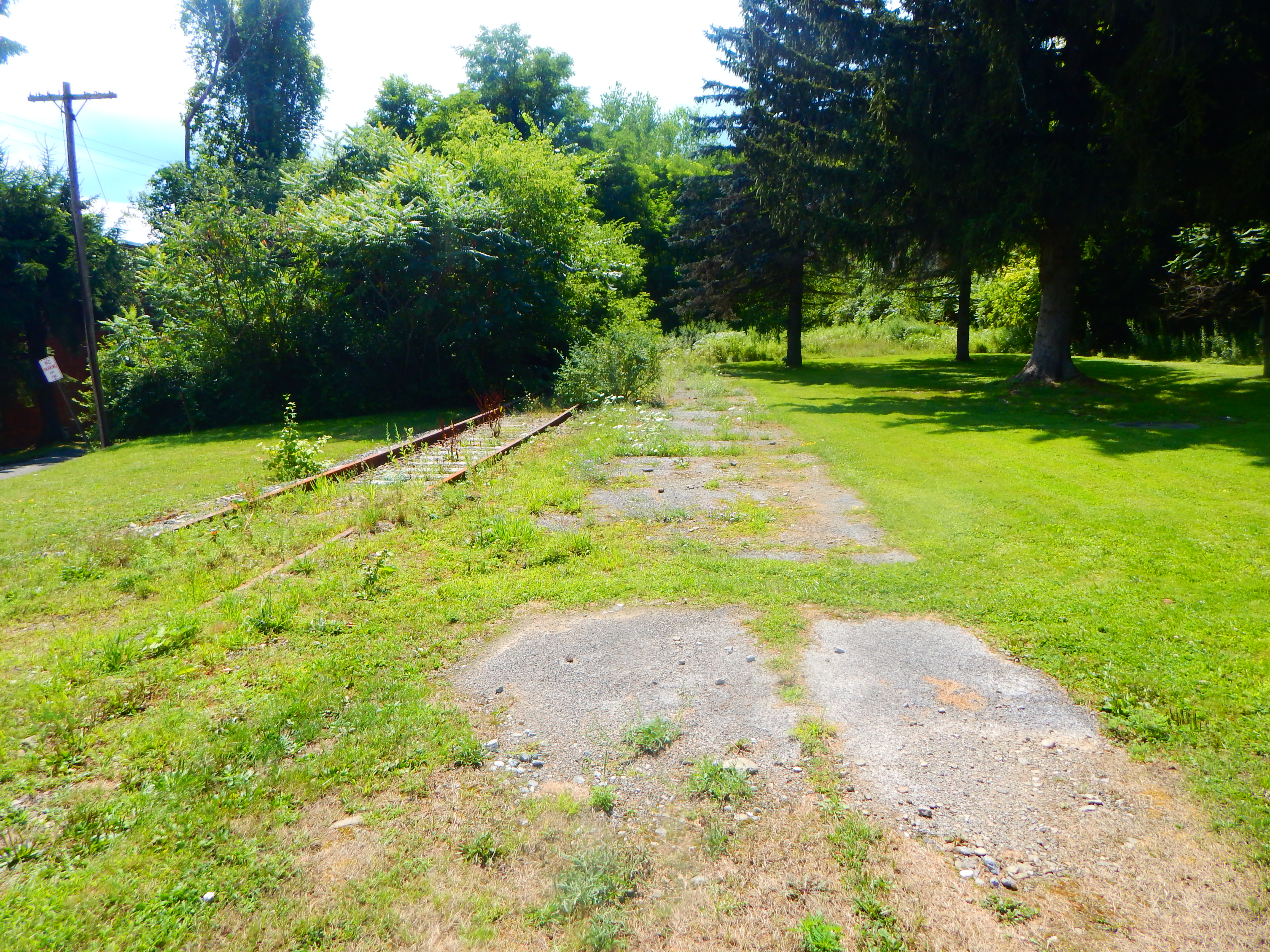 Cattaraugus station of the Erie Railroad Allegheny Division in Cattaraugus, New York.